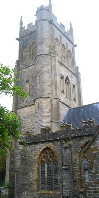 The back of the square tower, showing the octagonal stair turret